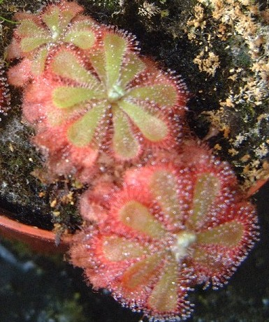 Drosera aliciae, the Alice sundew, taken by myself from my own collection.